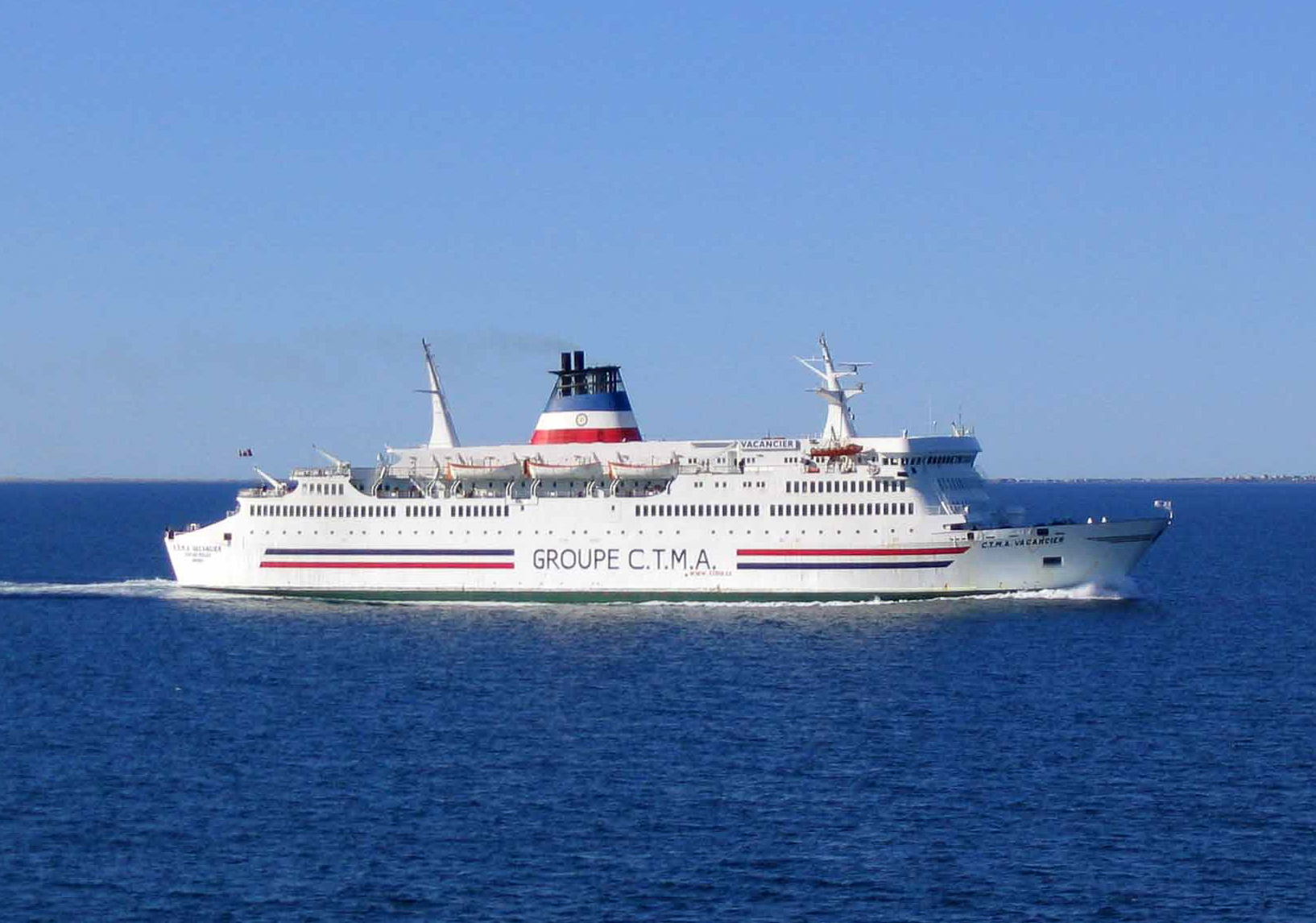 CTMA ferry C.T.M.A. Vacancier